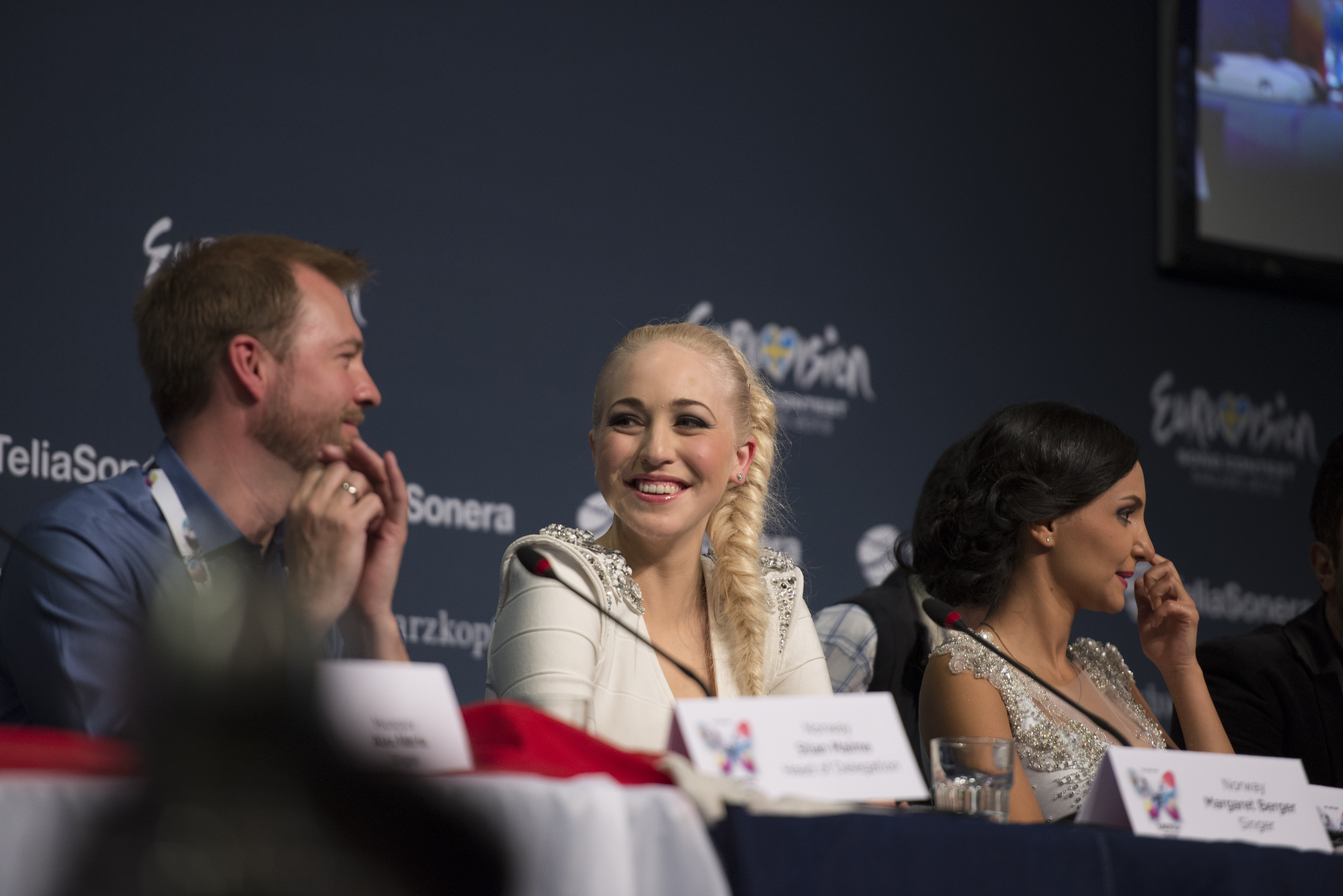 Margaret Berger at a press conference during the Eurovision Song Contest 2013 in Malmö. (Help translate this text)